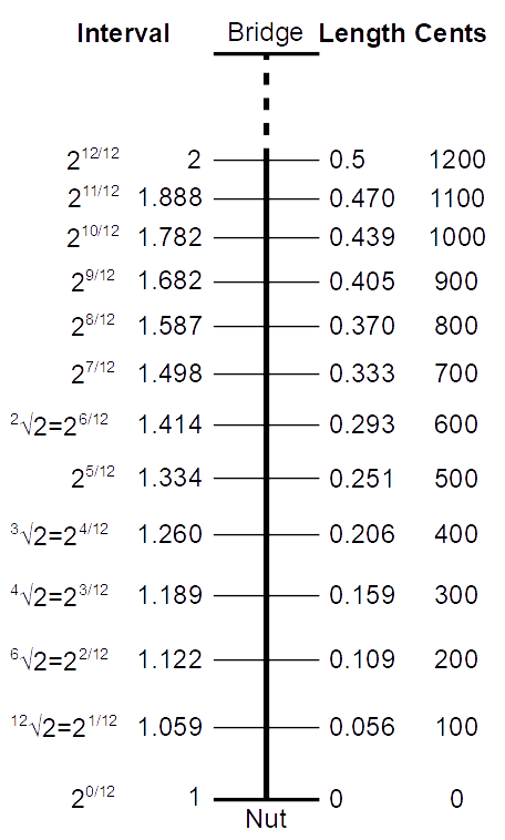 Equal tempered scale on a monochord. Each step is the twelfth root of two (12√2 = 2 1 / 12 {\displaystyle =2^{1/12 ).